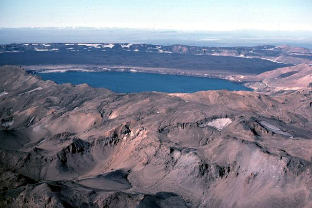 Photo of caldera of Askja Volcano